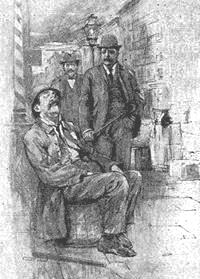 Illustration of Theodore Roosevelt and Jacob Riis walking the beat in NYC in 1894 when Roosevelt was New York City Police Commissioner